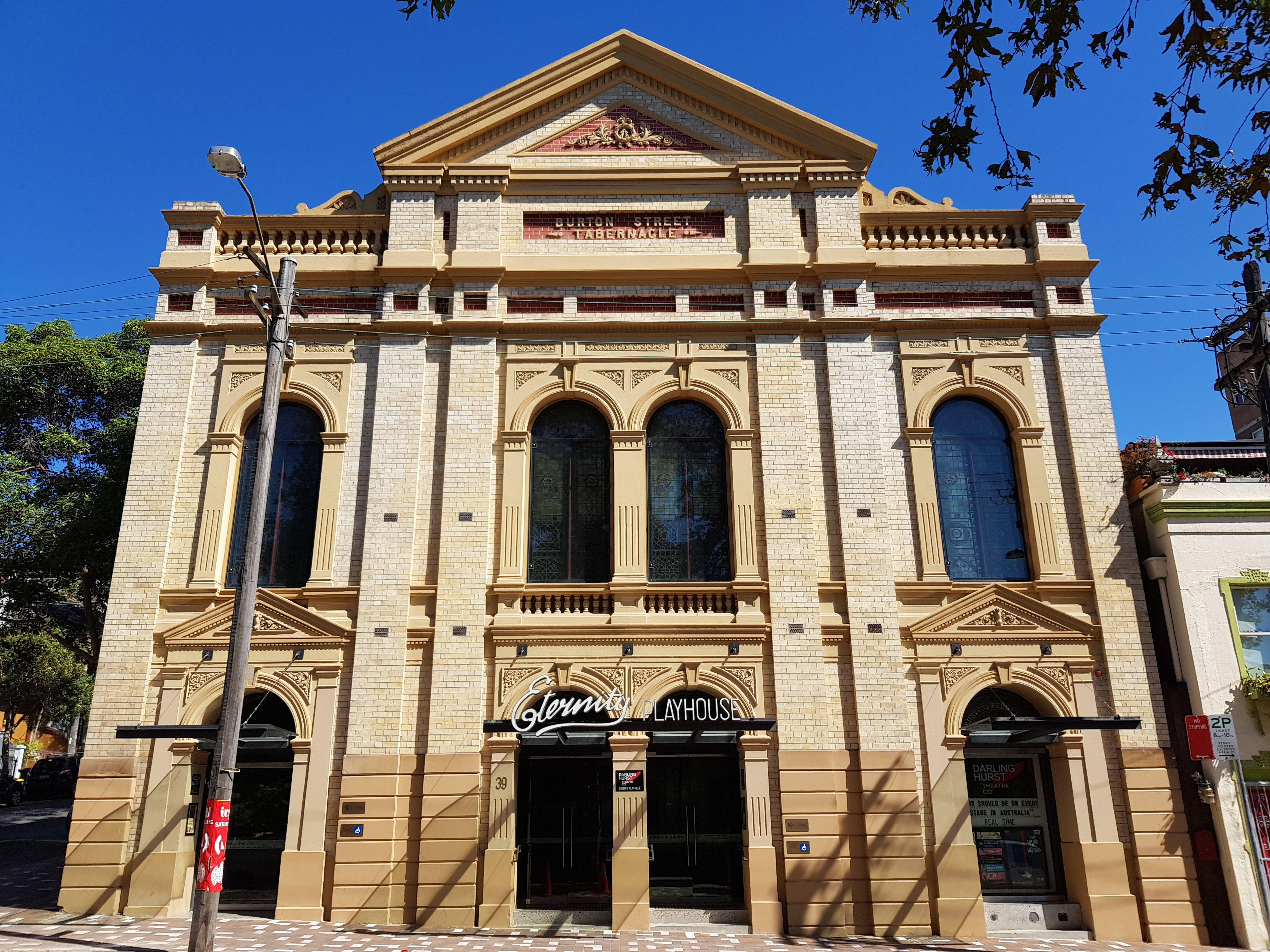 Eternity Playhouse in Darlinghurst, Sydney, New South Wales. Former Burton Street Tabernacle, Baptist Church.